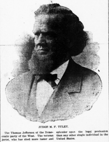 Judge M.F. Tuley in The Broad Ax, February 24, 1900